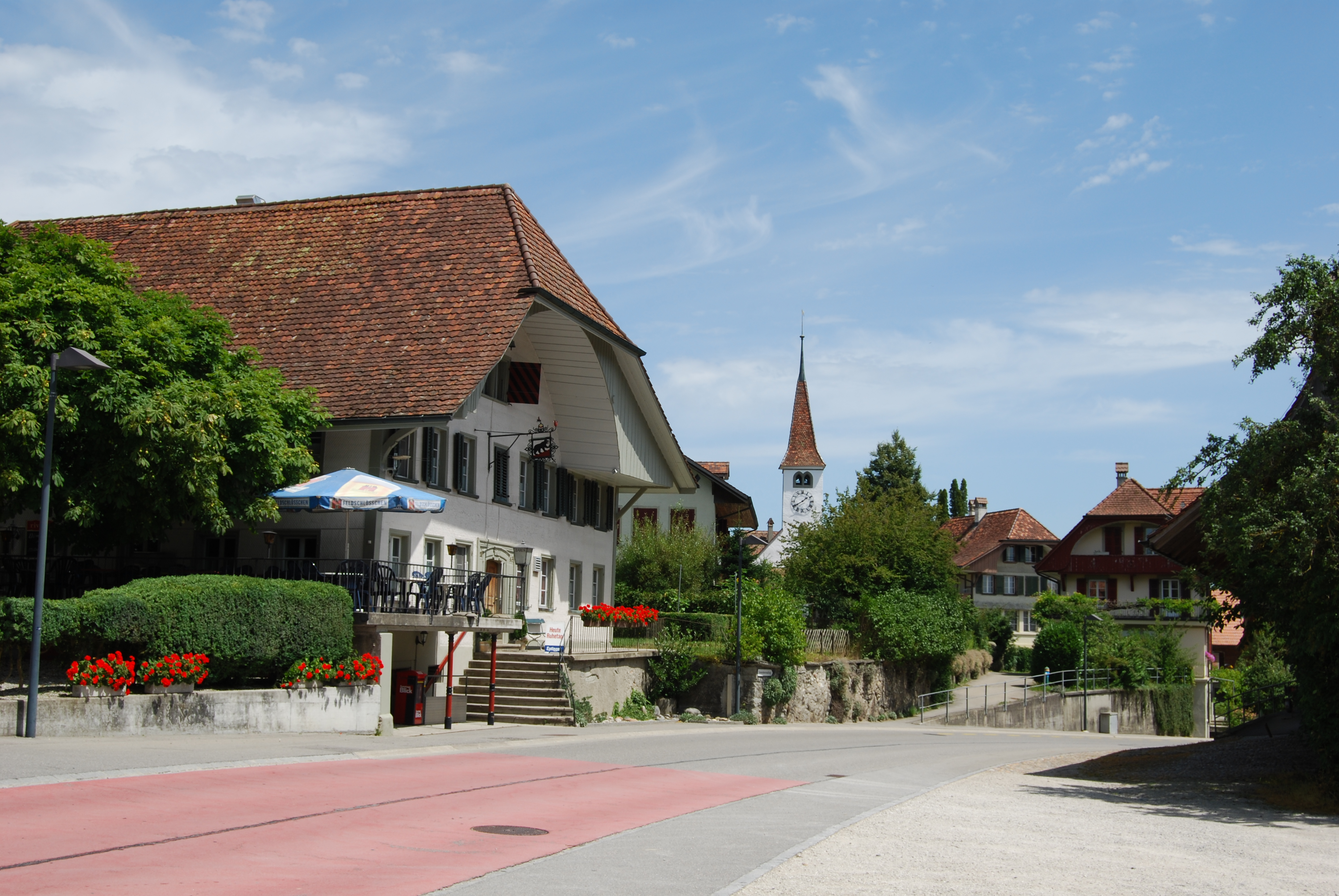 Frauenkappelen, canton of Bern, SwitzerlandEsperanto: Frauenkappelen, Kantono Berno, Svislando